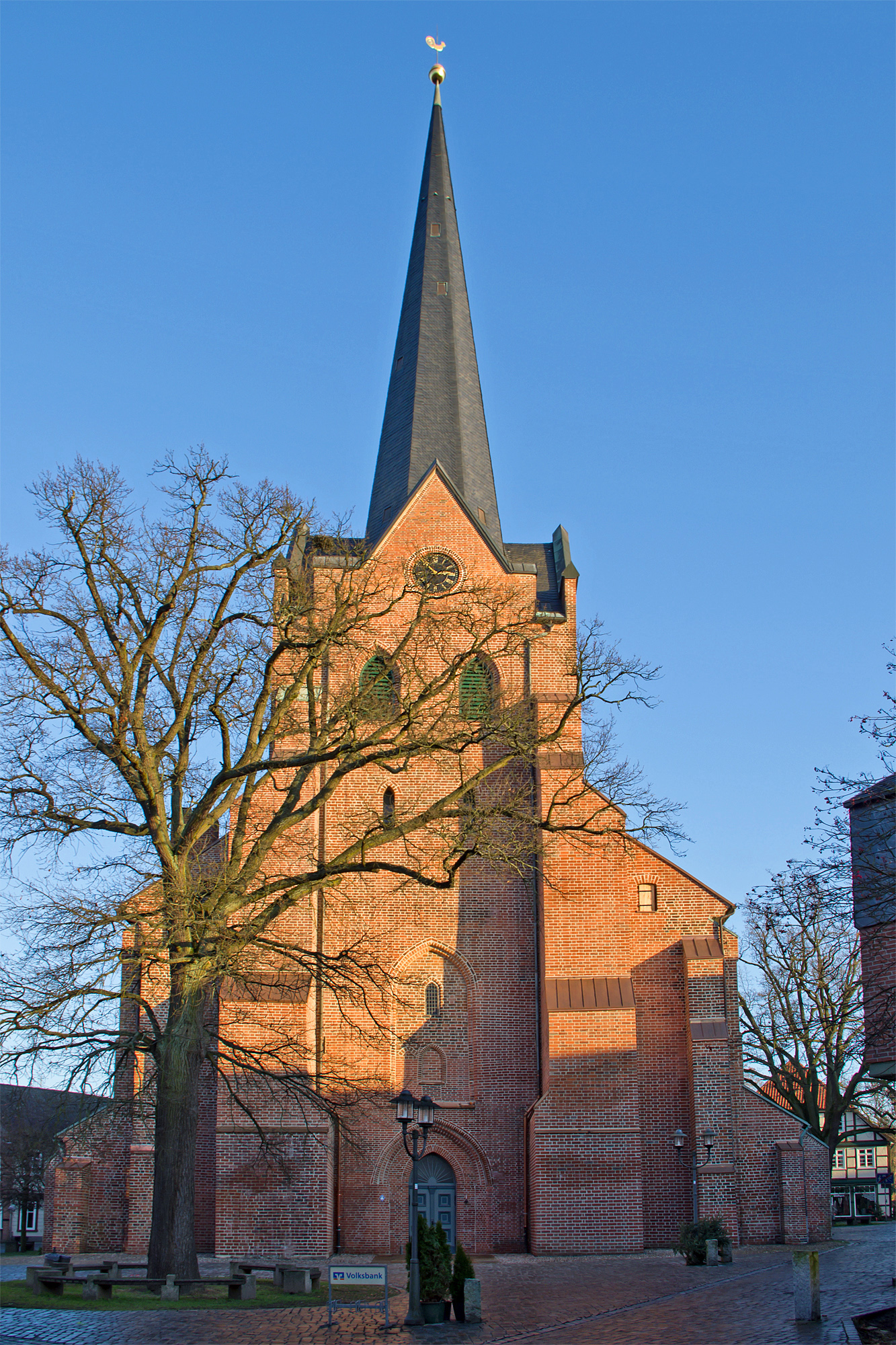 Church of the town Dannenberg (district Lüchow-Dannenberg, northern Germany).